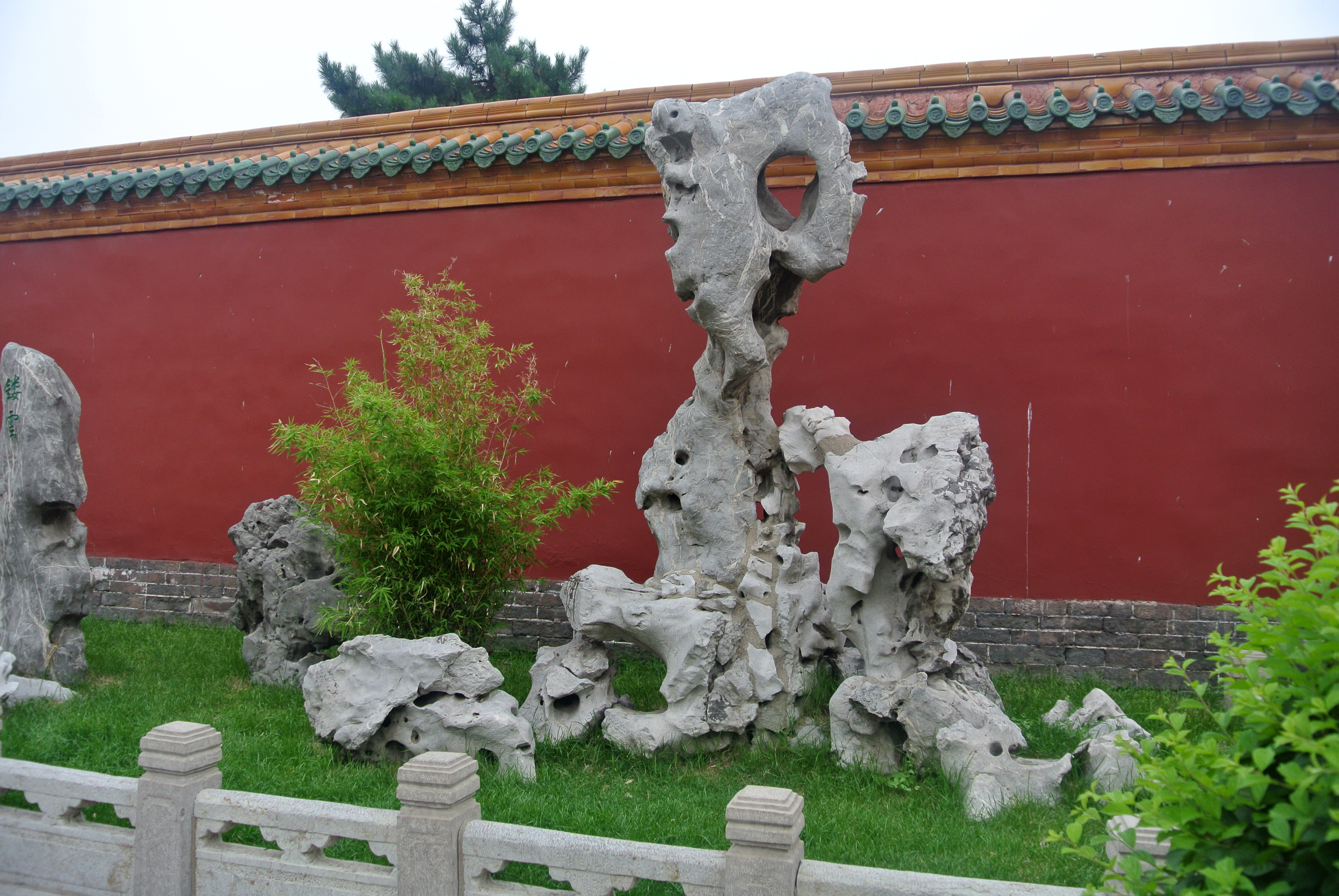 Karstic limestones in Shenyang Imperial Palace, Shenyang, China.